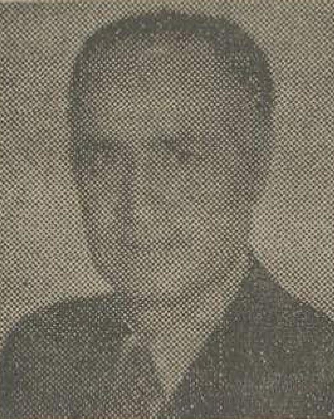 Ettelaat newspaper